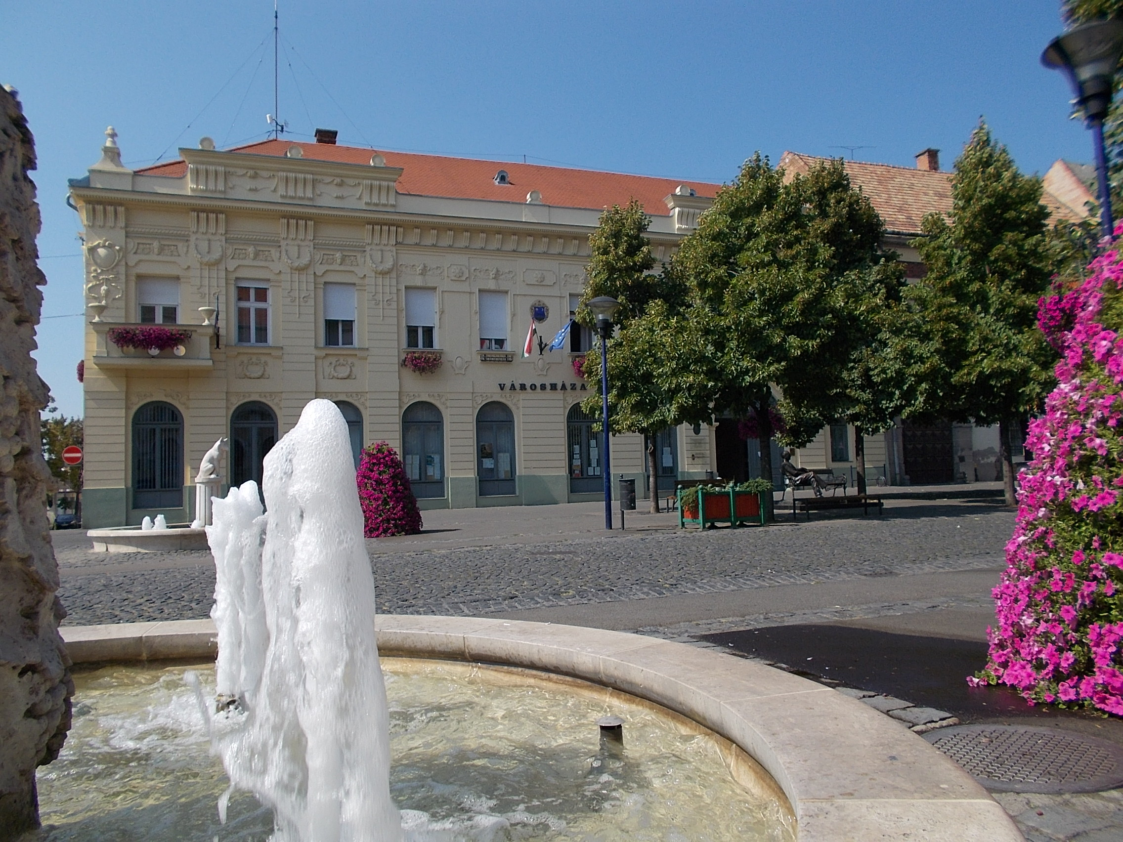 Fountain with Grapes and Gyöngyös Town Hall. Listed 1628. - 13, Fő square, Gyöngyös , Heves County, Hungary